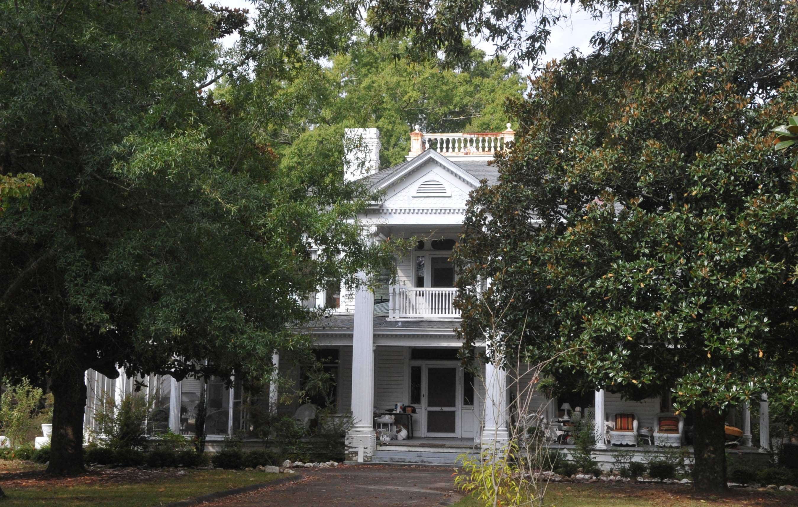 1885 CLASSICAL REVIVAL; HENRY CLAY WATSON PLAYED A SIGNIFICANT ROLE IN THE COMMERCIAL DEVELOPMENT OF ROCKINGHAM